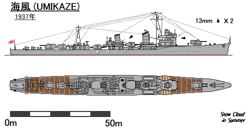 Figure of Japanese Shiratsuyu-class destroyer UMIKAZE in 1937.Arrow points in this figure are differences from Shiratsuyu.